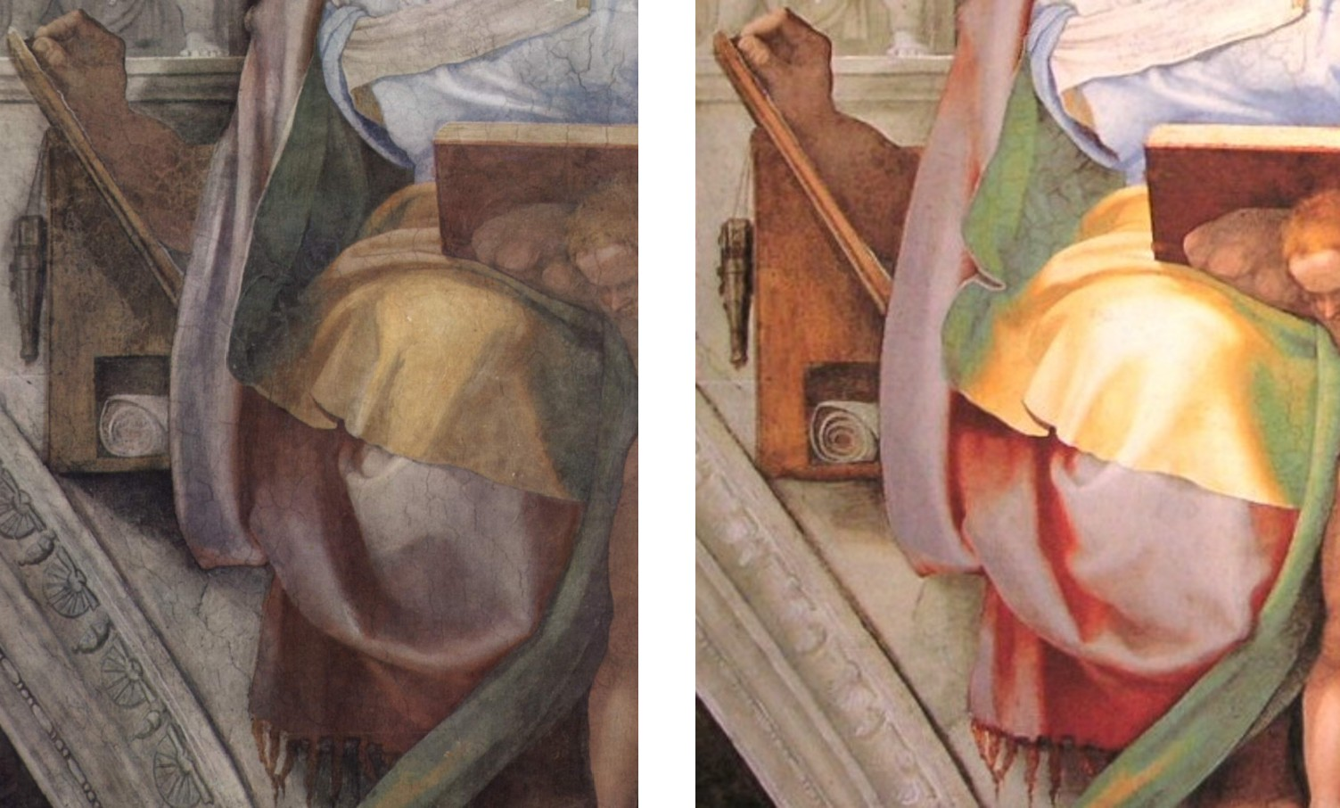 Sistine Chapel, detail, showing differences